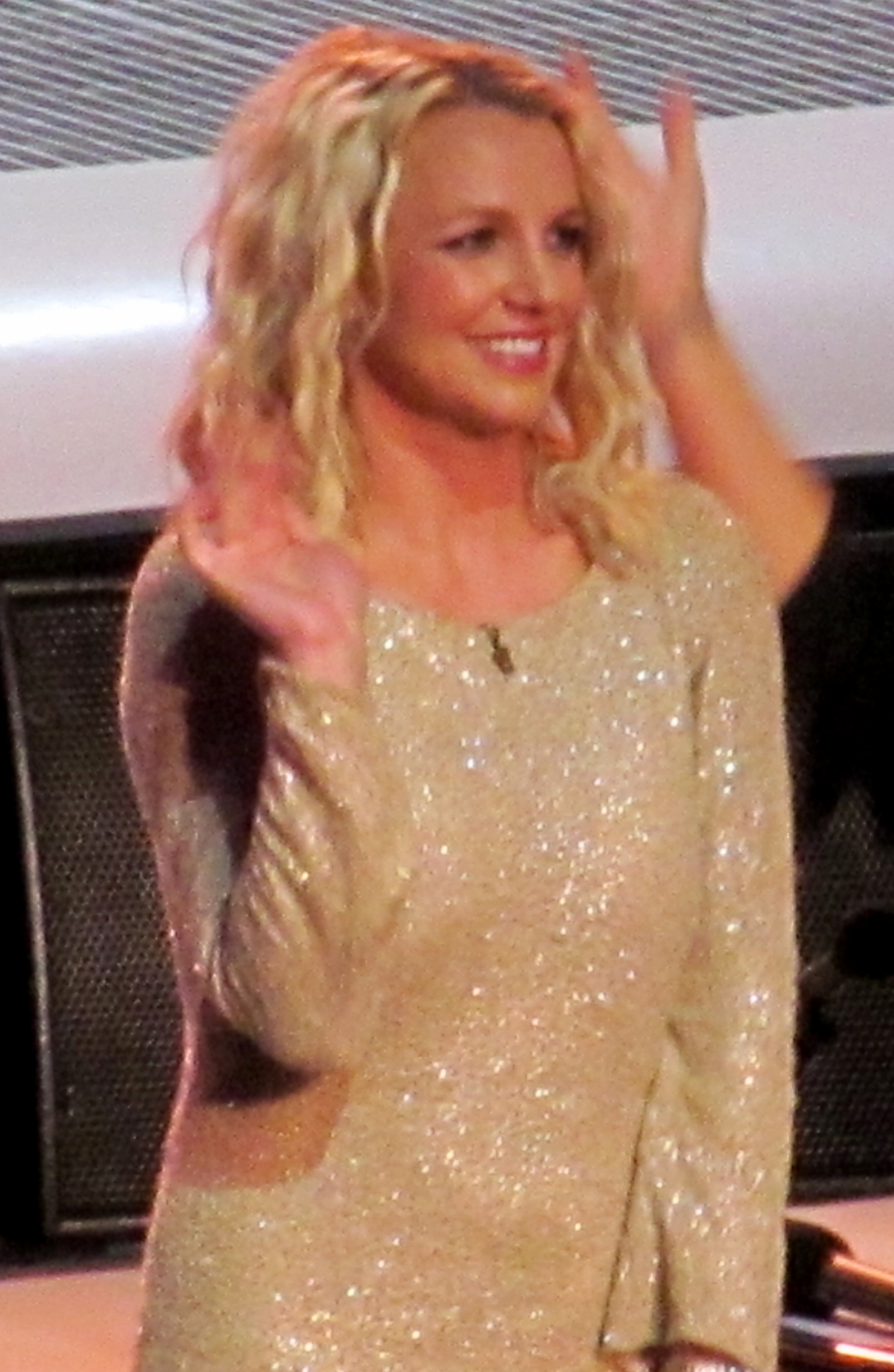 Britney Spears at the X-Factor US, in June 2012.